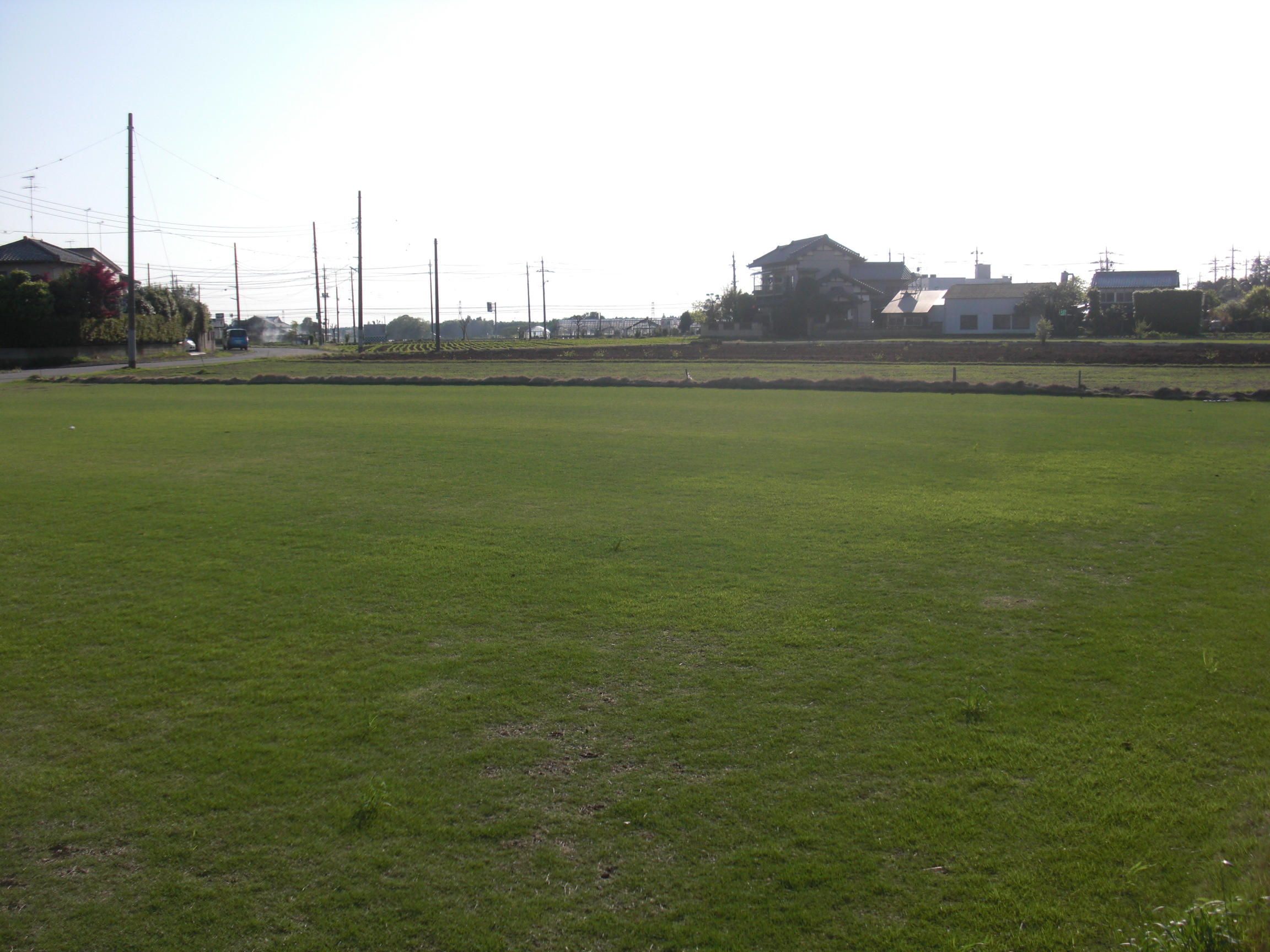 This is the lawn field in Tsukuba, Ibaraki, Japan.